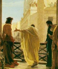 A cropped version of Antonio Ciseri's depiction of Pontius Pilate presenting a scourged Christ to the people. See: Eccehomo1.jpg for full version.